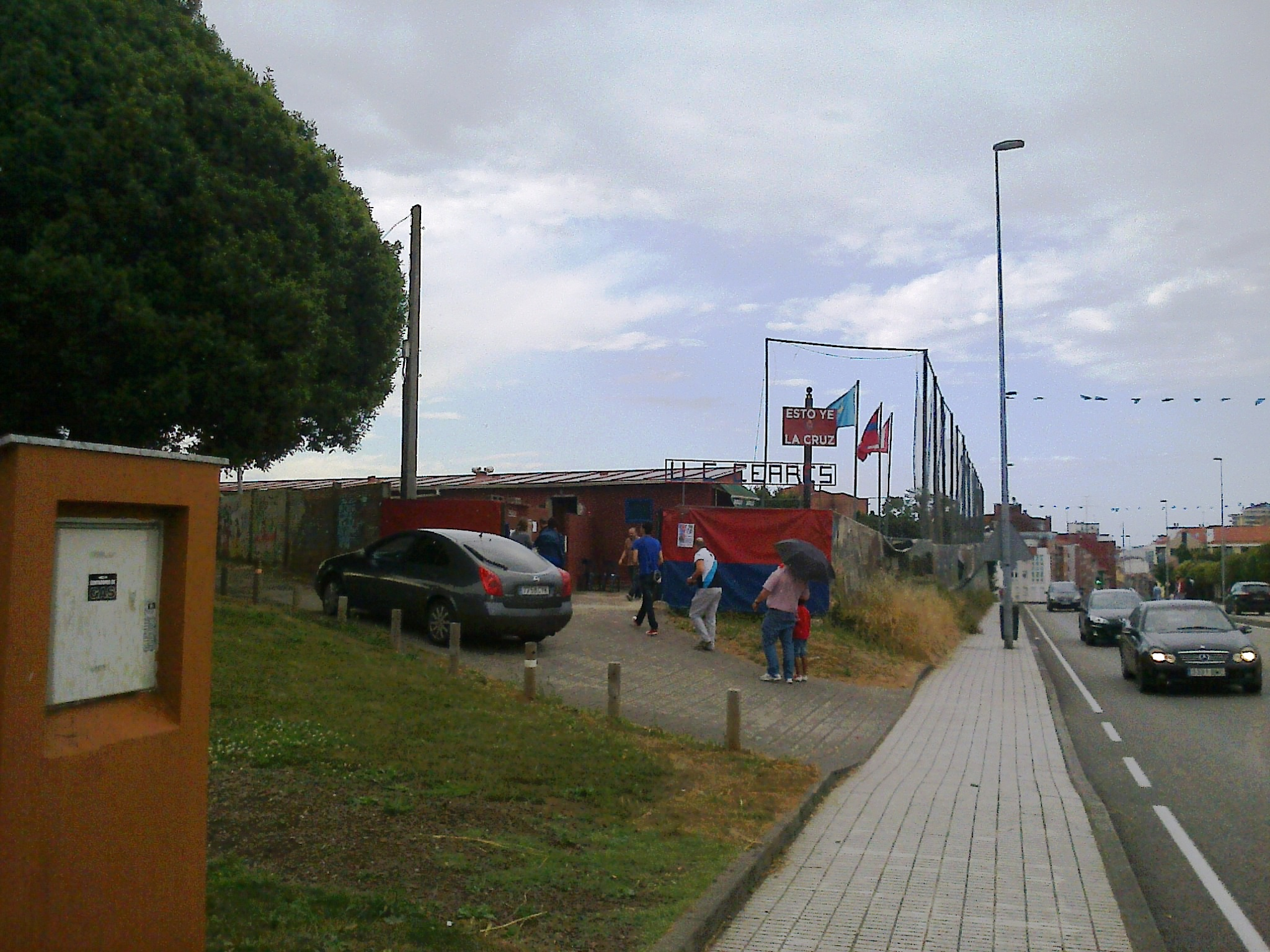 Outdoors of La Cruz field in Ceares, Gijón